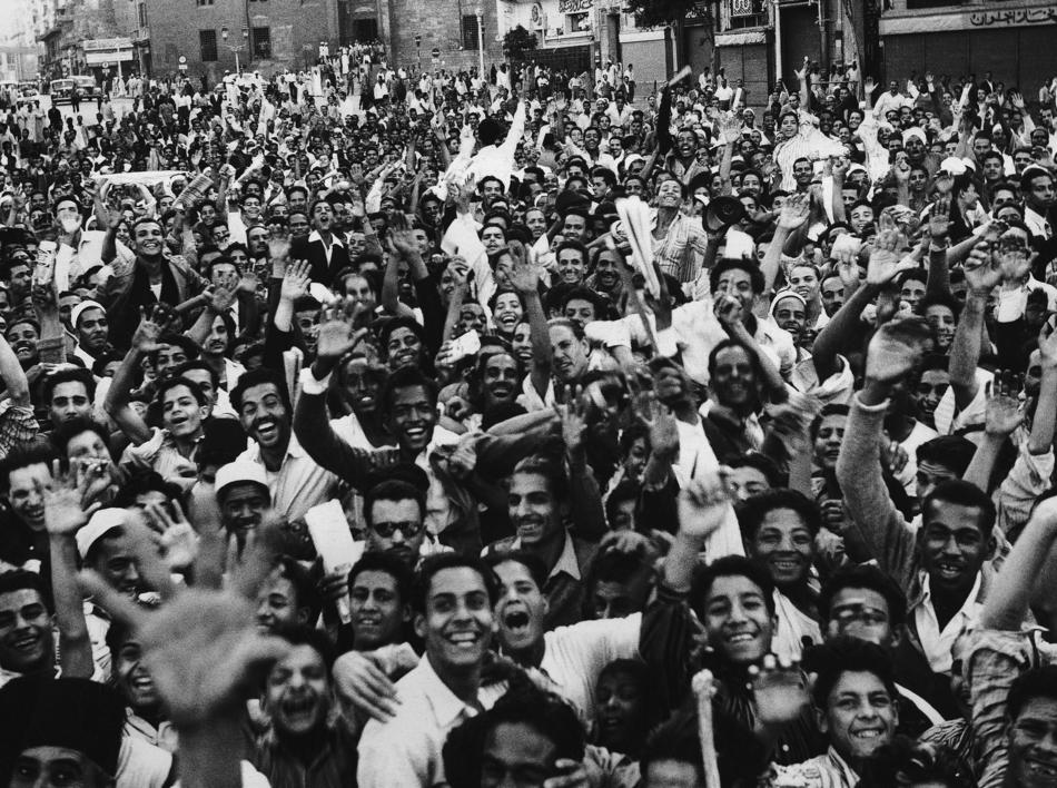 A waving and shouting crowd demonstrates against Great Britain in Cairo on Oct. 23, 1951 as tension continued to mount in the dispute between Egypt and Britain over control of the Suez Canal and Sudan. Police used tear gas to disperse Cairo mobs and fired into other crowds in Alexandria.